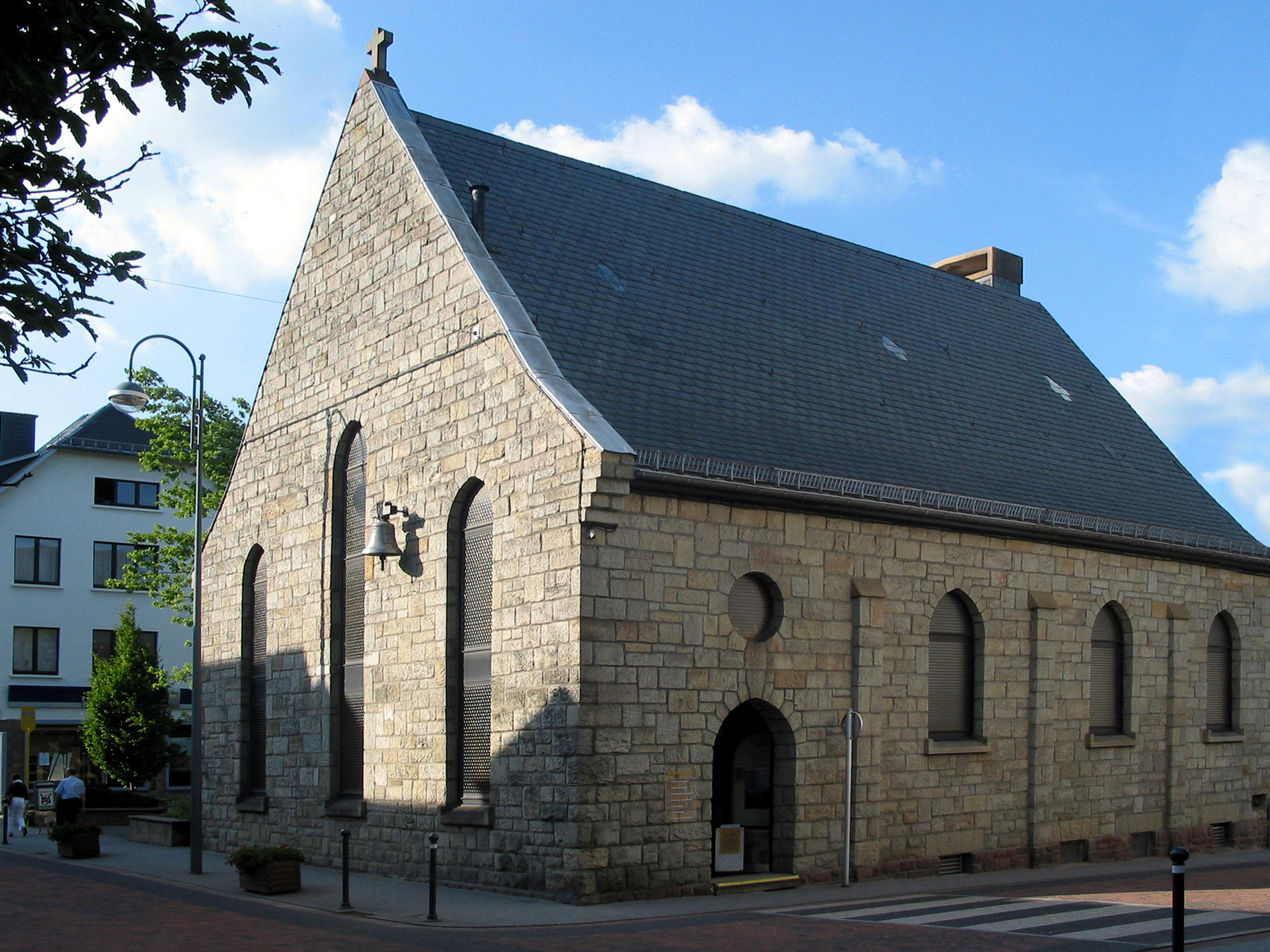 St. Vith (Belgium), the churh of Saint Catherine.